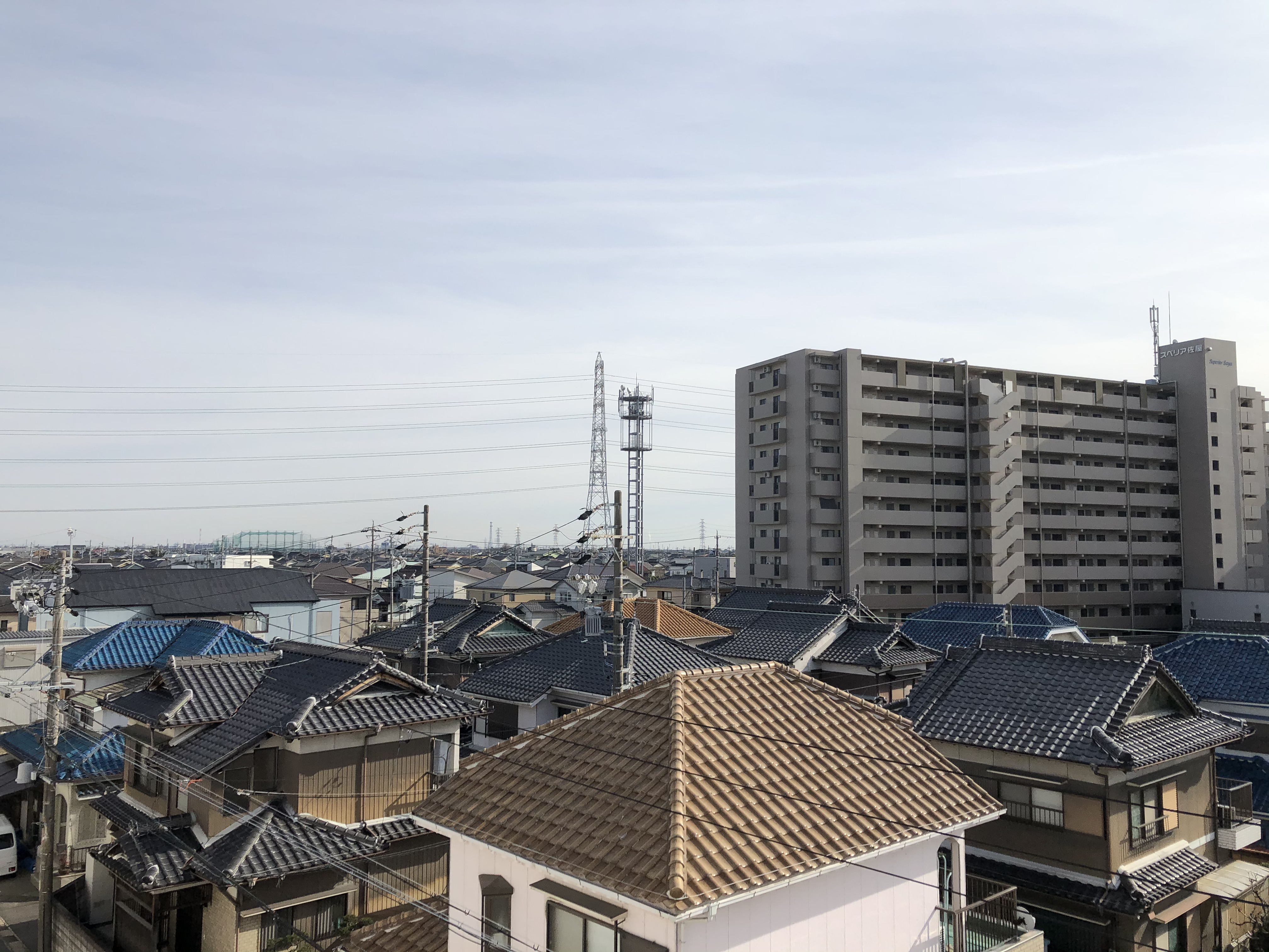 Skyline of Saya from YOSHIZUYA Saya